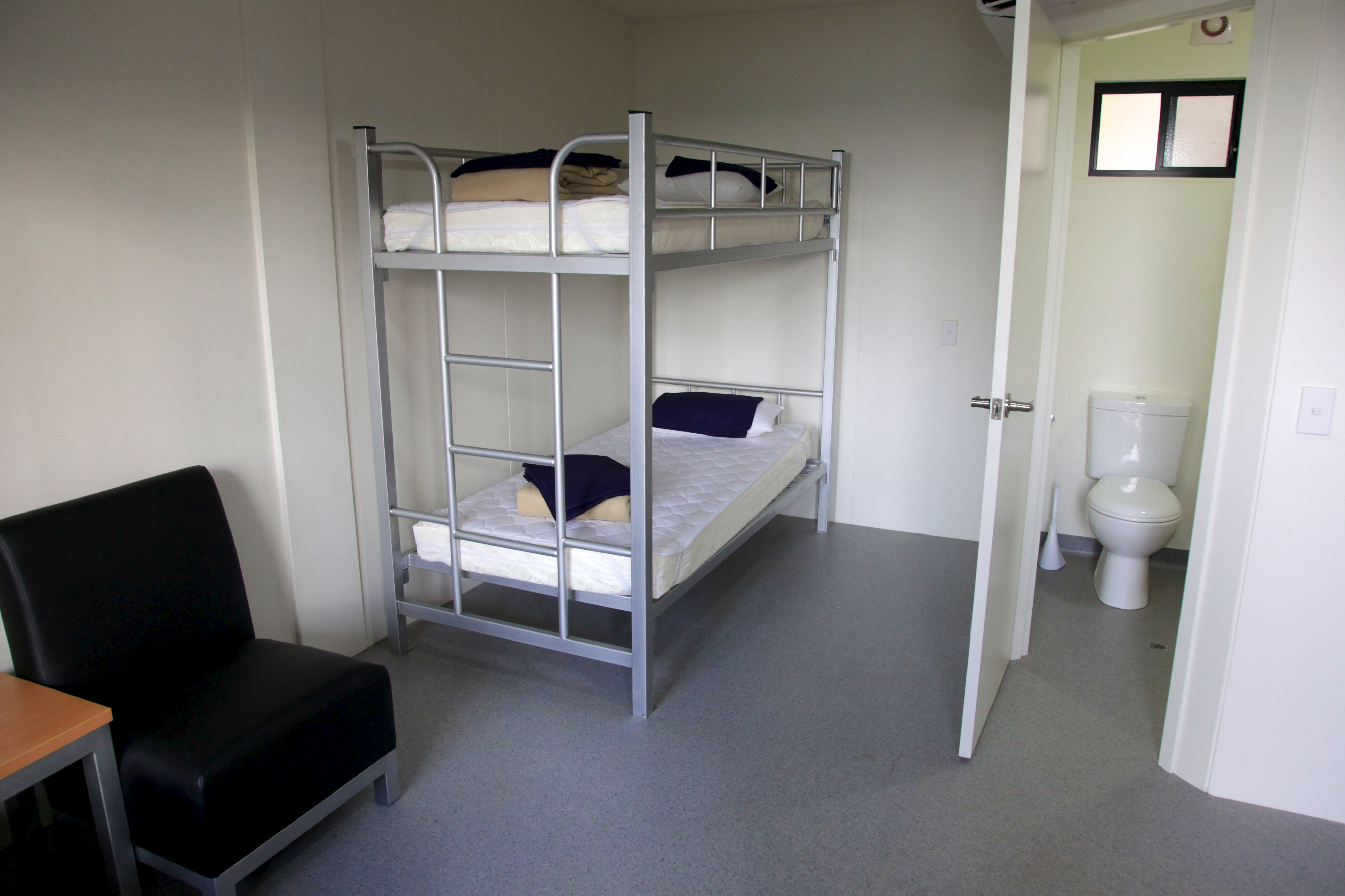 Wickham Point Immigration Detention Centre